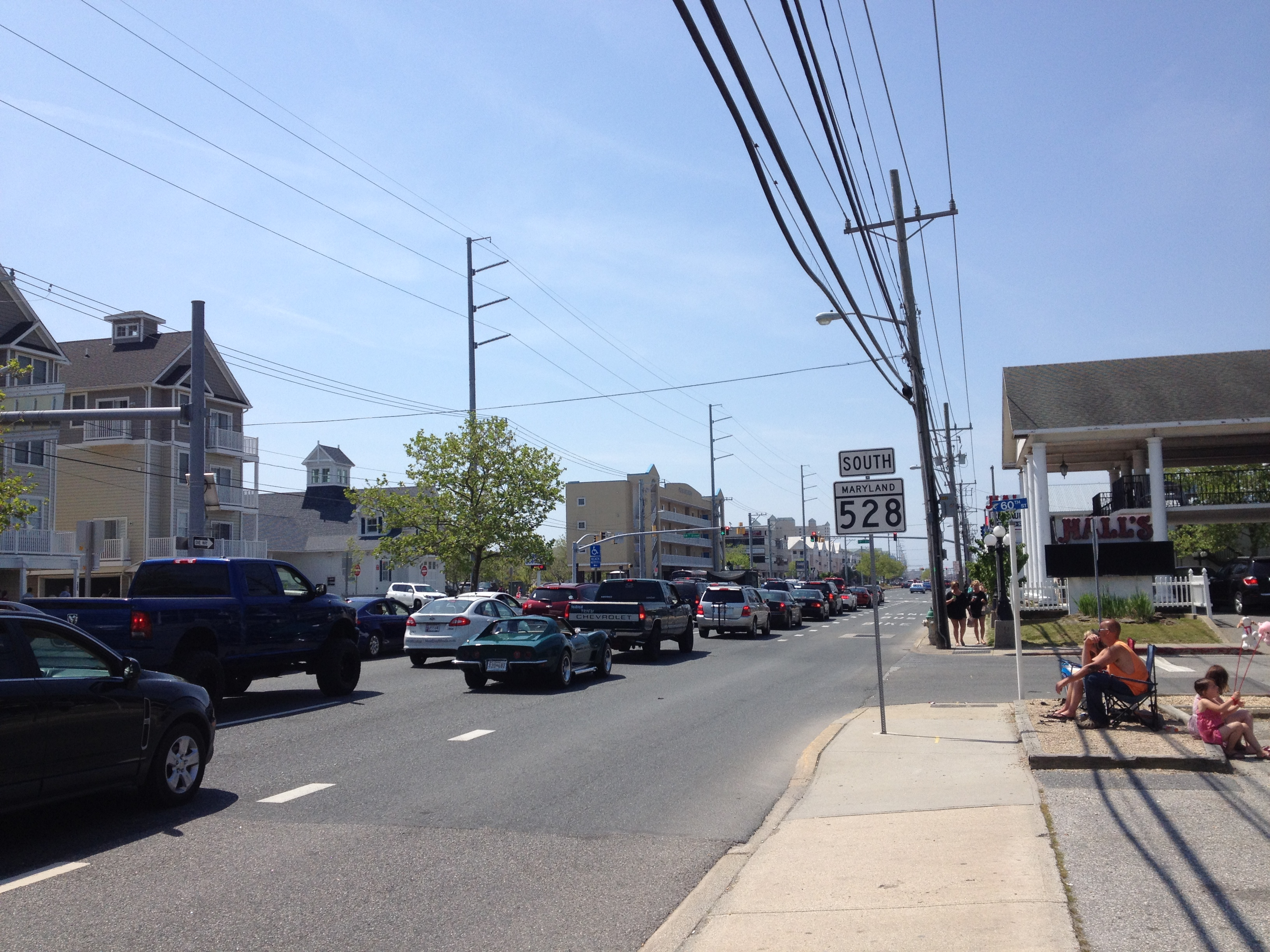 Southbound Maryland Route 528 (Coastal Highway) past the intersection with Maryland Route 90 (Ocean City Expressway) in Ocean City